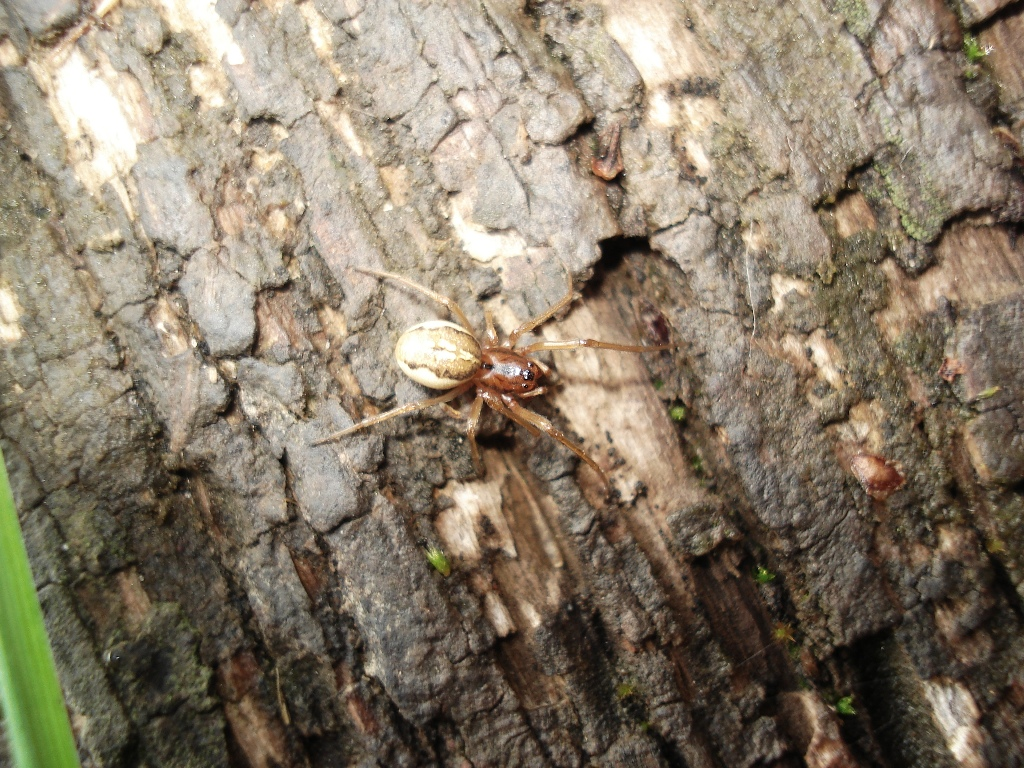 Pachygnatha clercki